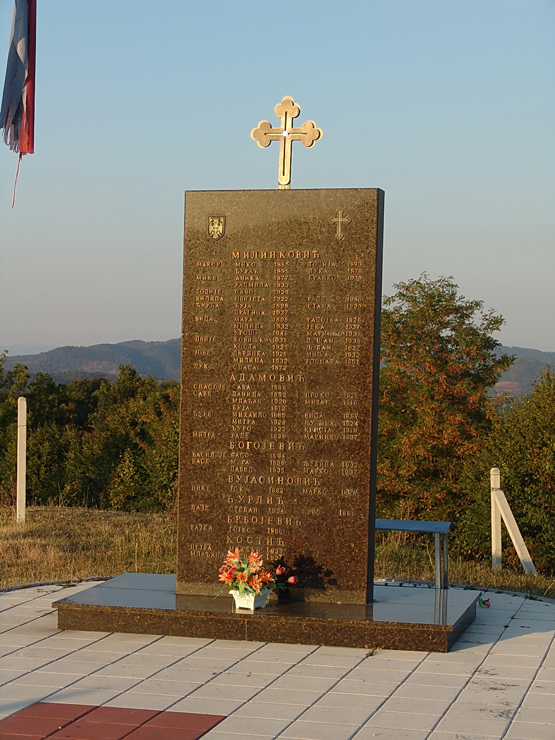 Memorial Bijeli potok near Celinac in Republic of Srpska, Bosnia.. On this place at April 05. 1942. Croatian ustashas have killed 54 Serbs age 1- 80.